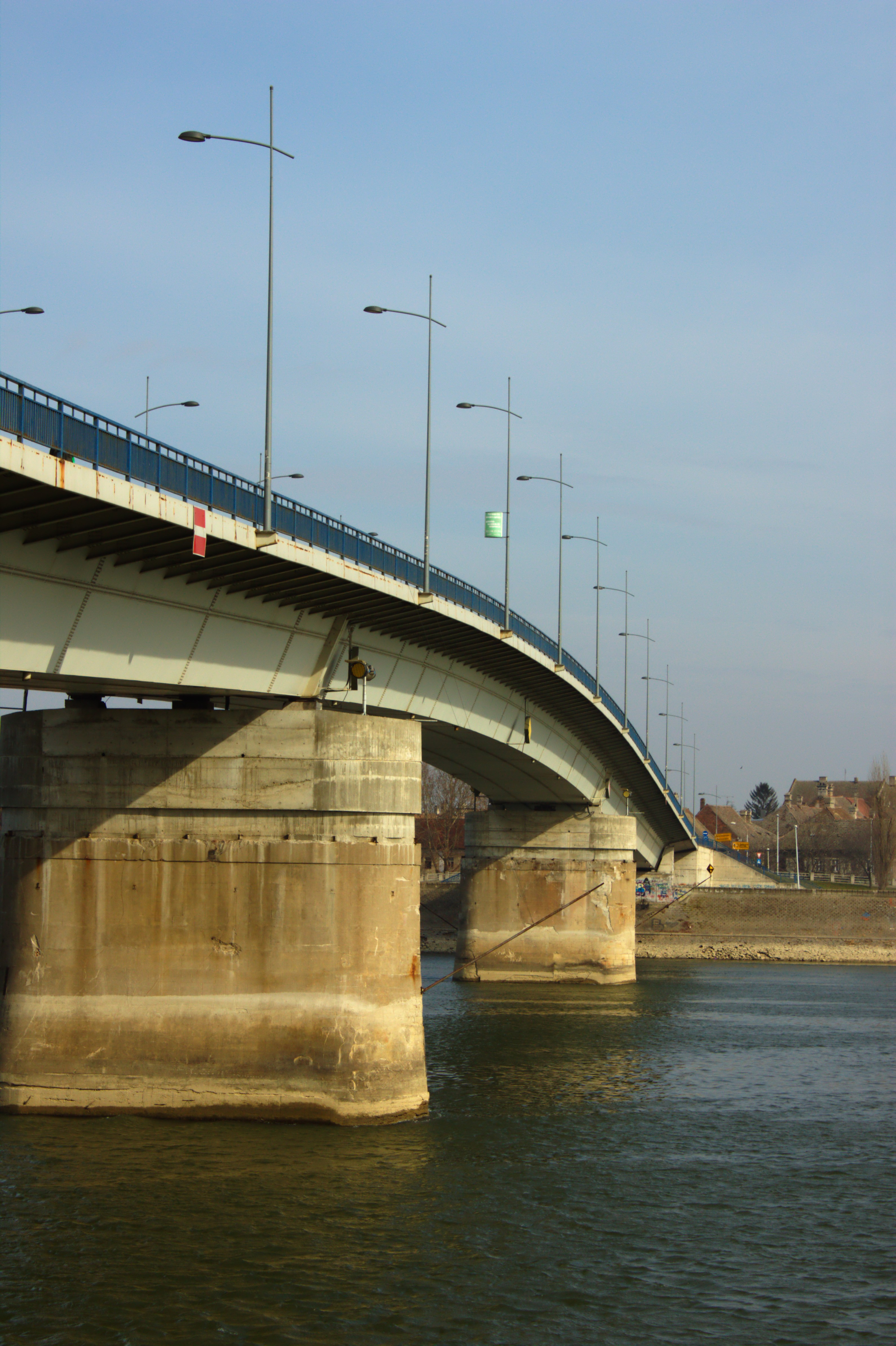 Varadin Bridge in Novi Sad, Serbia. The bridge is seen from the Novi Sad side toward Petrovaradin